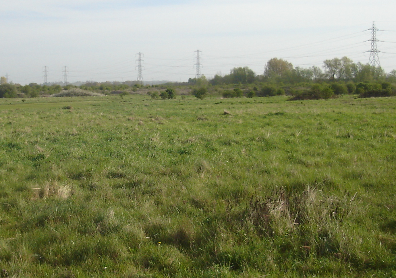 Looking north across Rammey Marsh at Enfield Lock